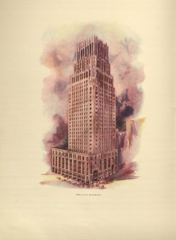 Colored illustration of the exterior of the former Gulf Building.